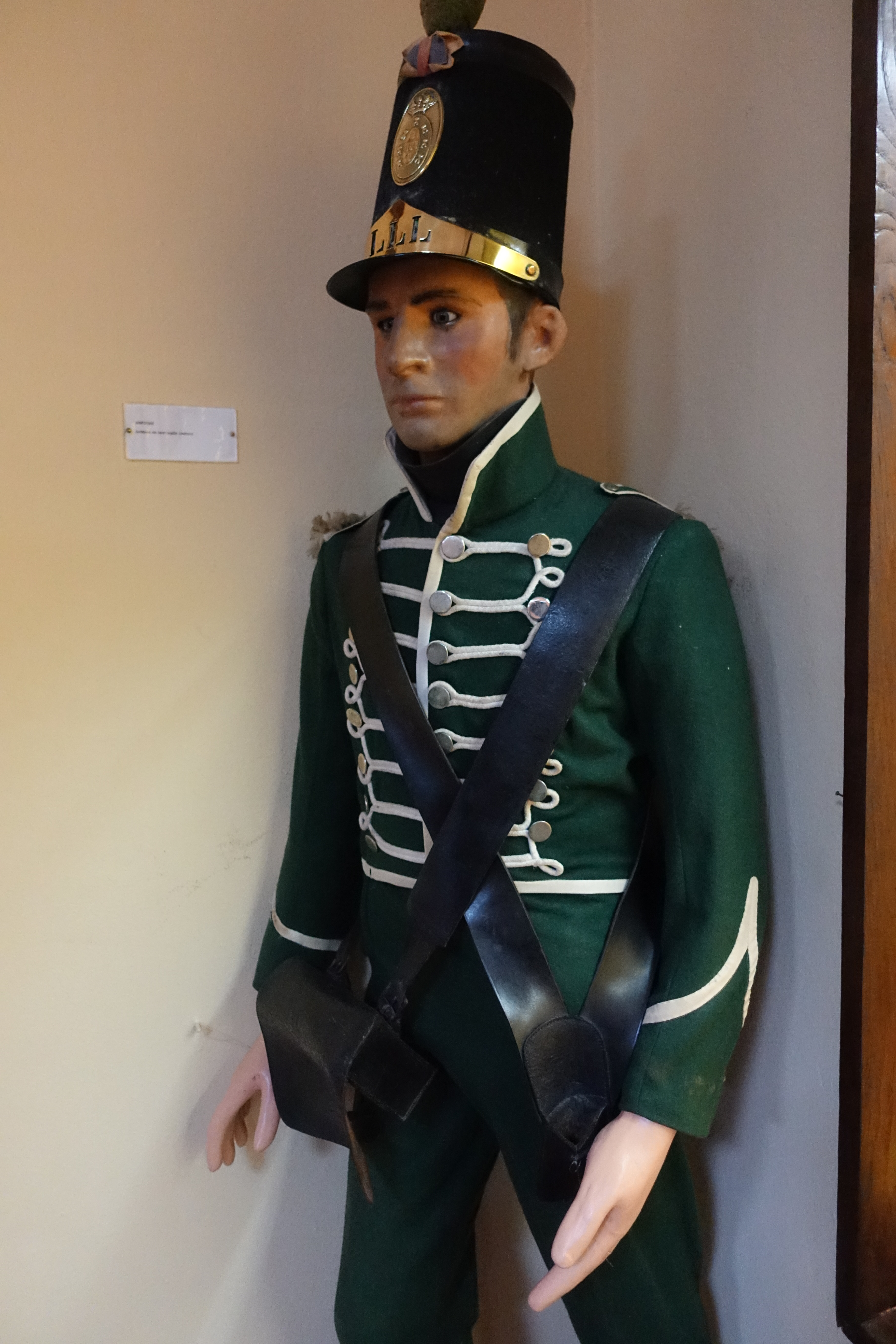 Military museum in Buçaco, Mealhada Portugal